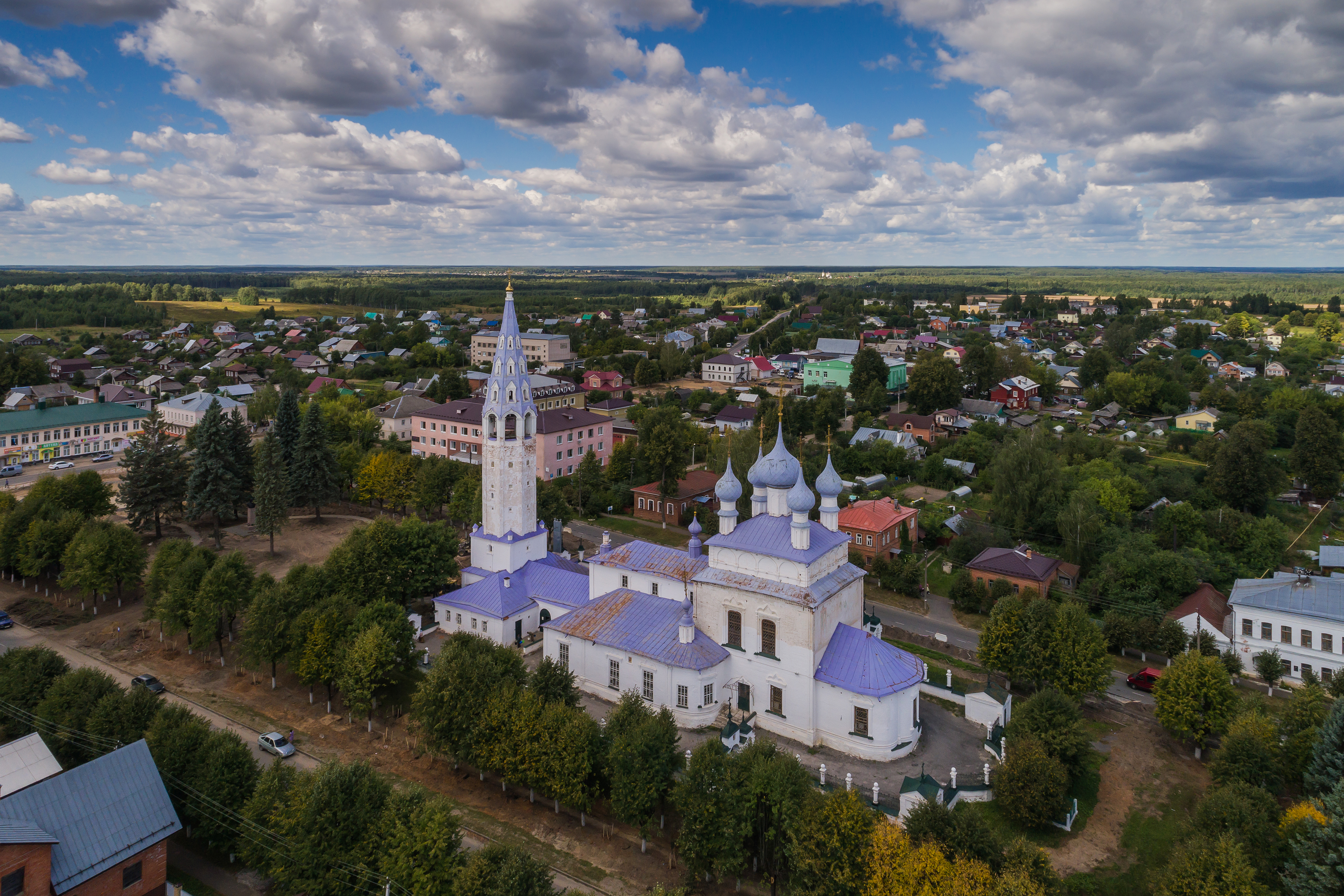 Aerial photo of Palekh, Ivanovo Oblast, Russia.